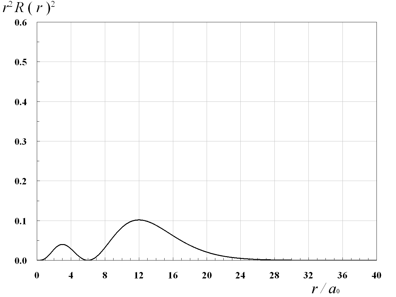 Radial distribution in 3p orbital